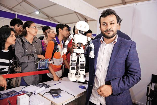 Diwakar Vaish developed Manav in the lab of A-SET Training and Research Institutes, New Delhi. The robot was previewed in IIT- Bombay itself.